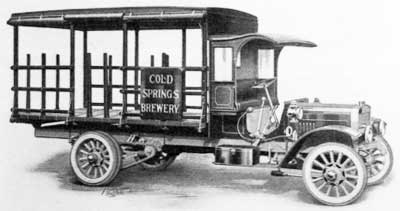 1913 Atterbury Beer truck Abresch body for Cold Springs Brewery